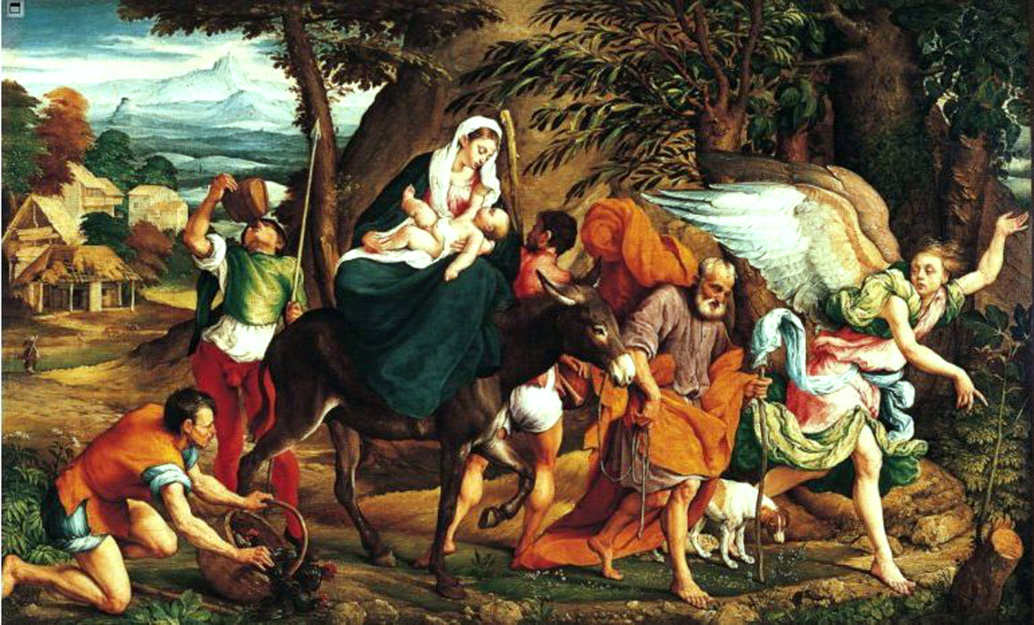 The Flight into Egypt